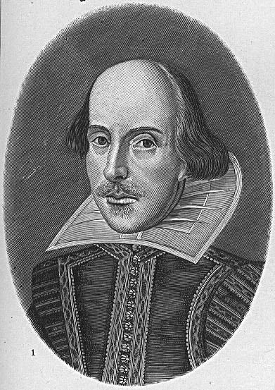 William Shakespeare (1564-1616)